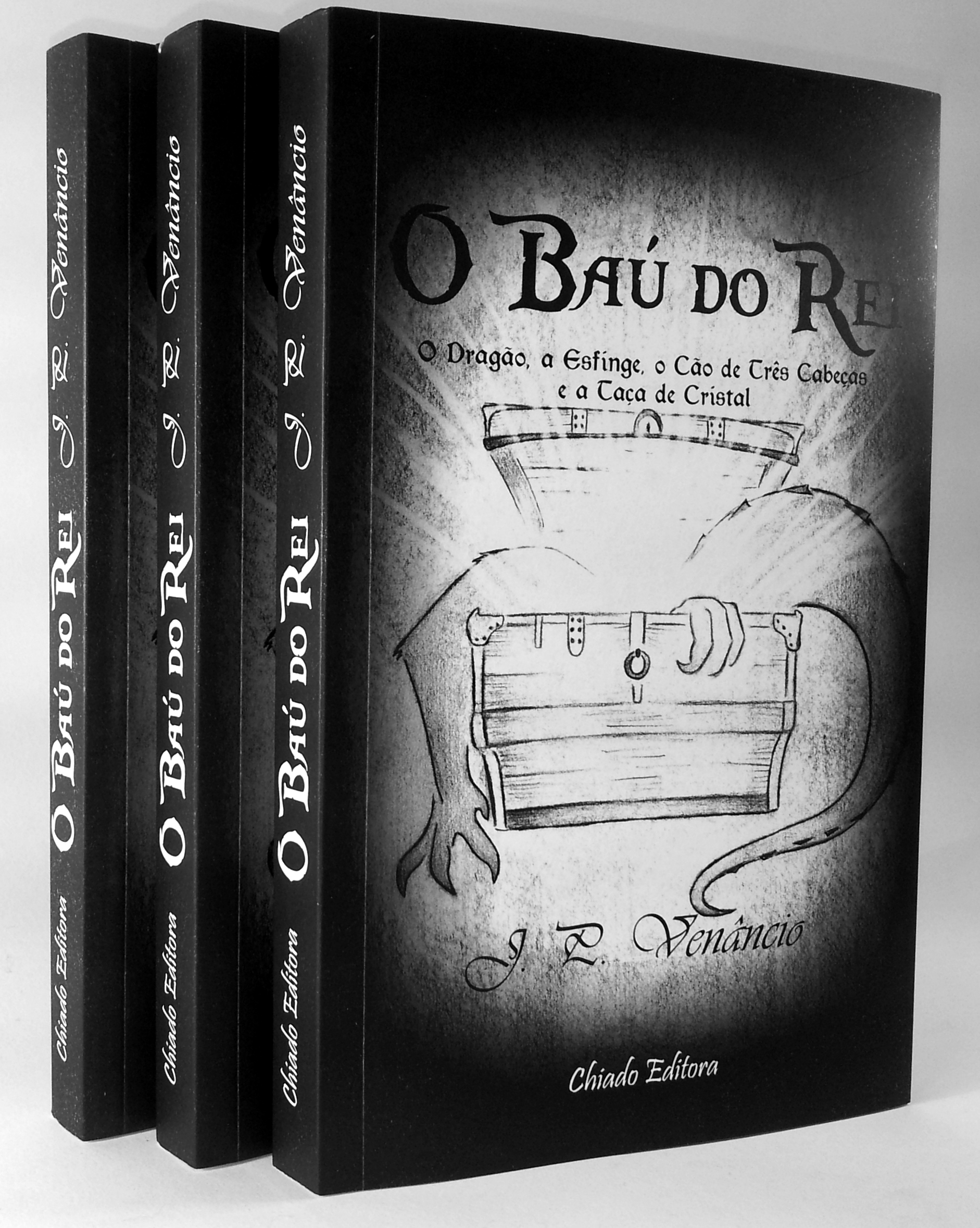 Book Cover O Baú do Rei